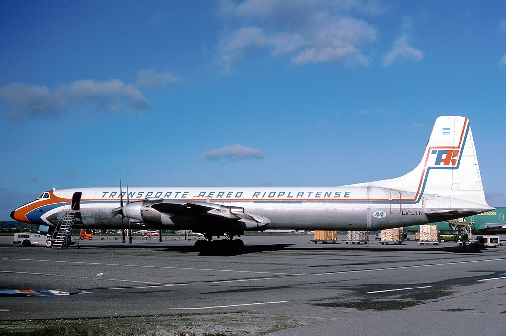 Transporte Aereo Rioplatense Canadair CL-44 at Basle Airport